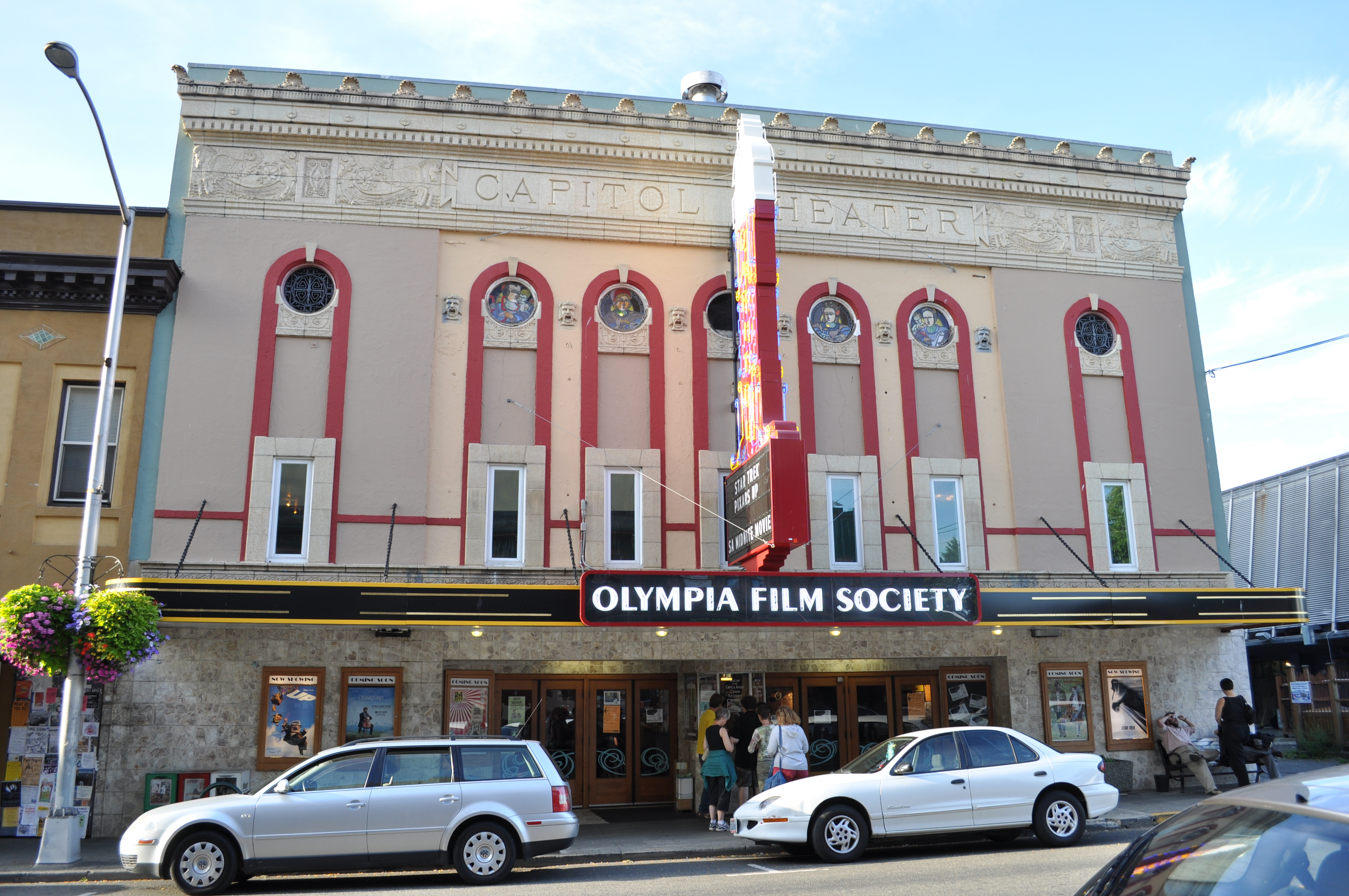 Capitol Theater, Downtown Olympia, Washington, USA. Headquarters of the Olympia Film Society. Pictured here shortly after a renovation.